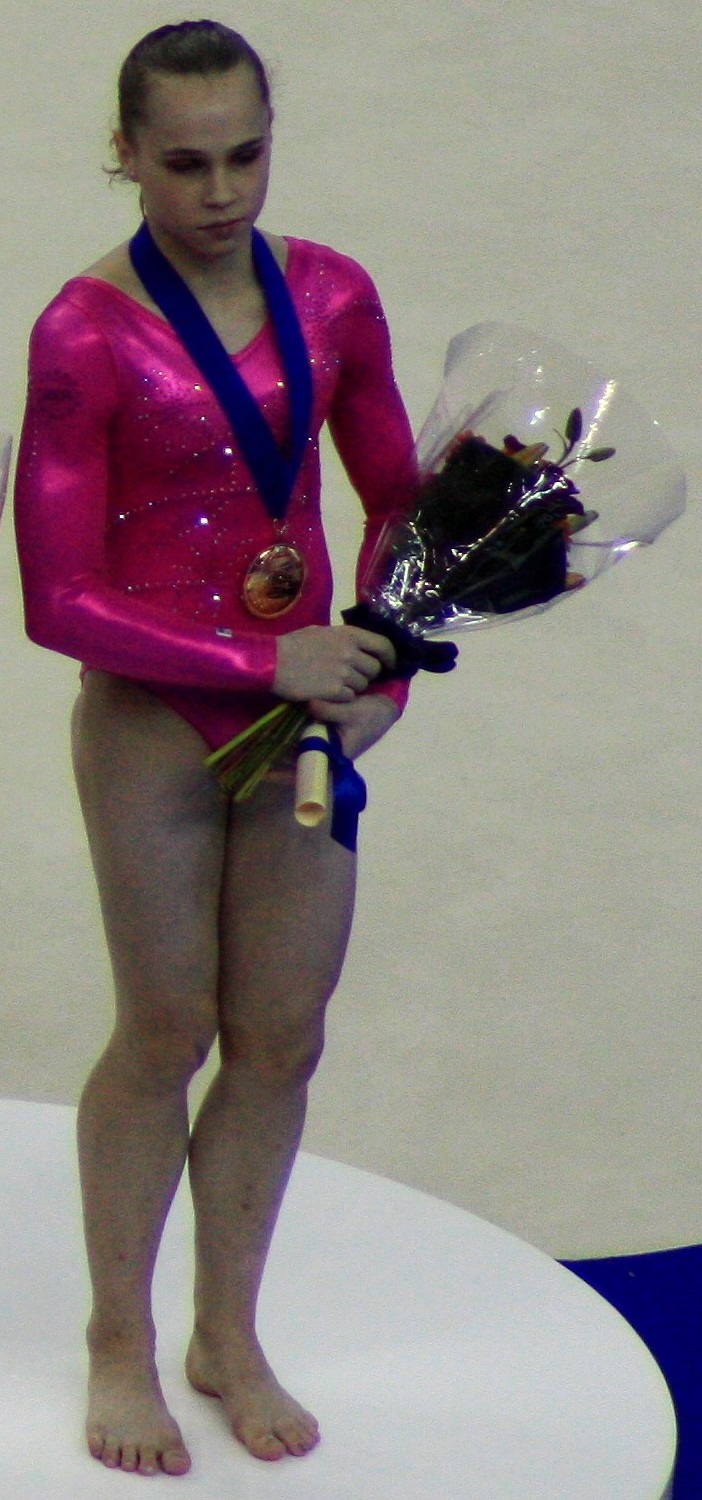 Podium of the uneven bars at the 2009 World Artistic Gymnastics Championships. From left to right on the podium: Koko Tsurumi (Japan, 2nd place), He Kexin (China, 1st place) Ana Porgras (Romania, 3rd place eq.) and Rebecca Bross (USA, 3rd place eq.). Behind them, we can see gymnasts waiting for the medal ceremony for the rings. From left to right: Jordan Jovtchev (Bulgaria, 2nd place), Yang Mingyong (China, 1st place) and Oleksandr Vorobiov (Ukraine, 3rd place).